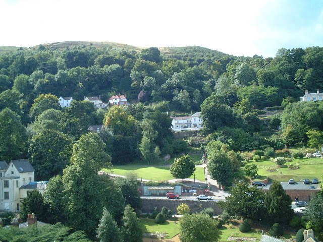 Rosebank Gardens. Viewed from the top of Malvern Priory. Rosebank was the residence of Dyson Perrins (of Worcestershire Sauce fame). He gave it to the down, and after its later demolition became the pleasant gardens we enjoy today. Here the 99 steps link the town to st.Ann's Road from where a path leads to St. Ann's Well.